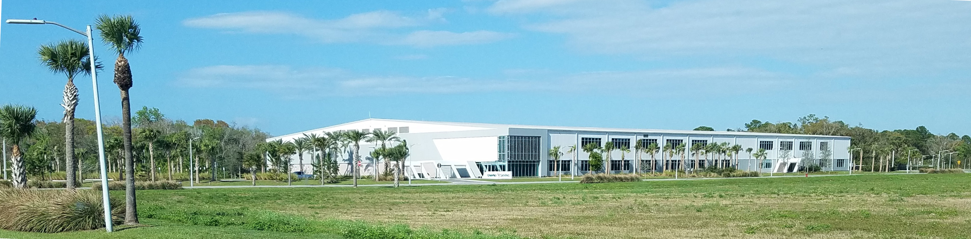 Facility was recently built for the manufacturing and mass production of the large 600+ sat OneWeb satellite internet constellation. Located in Exploration Park, leased from Space Florida. February 2019.